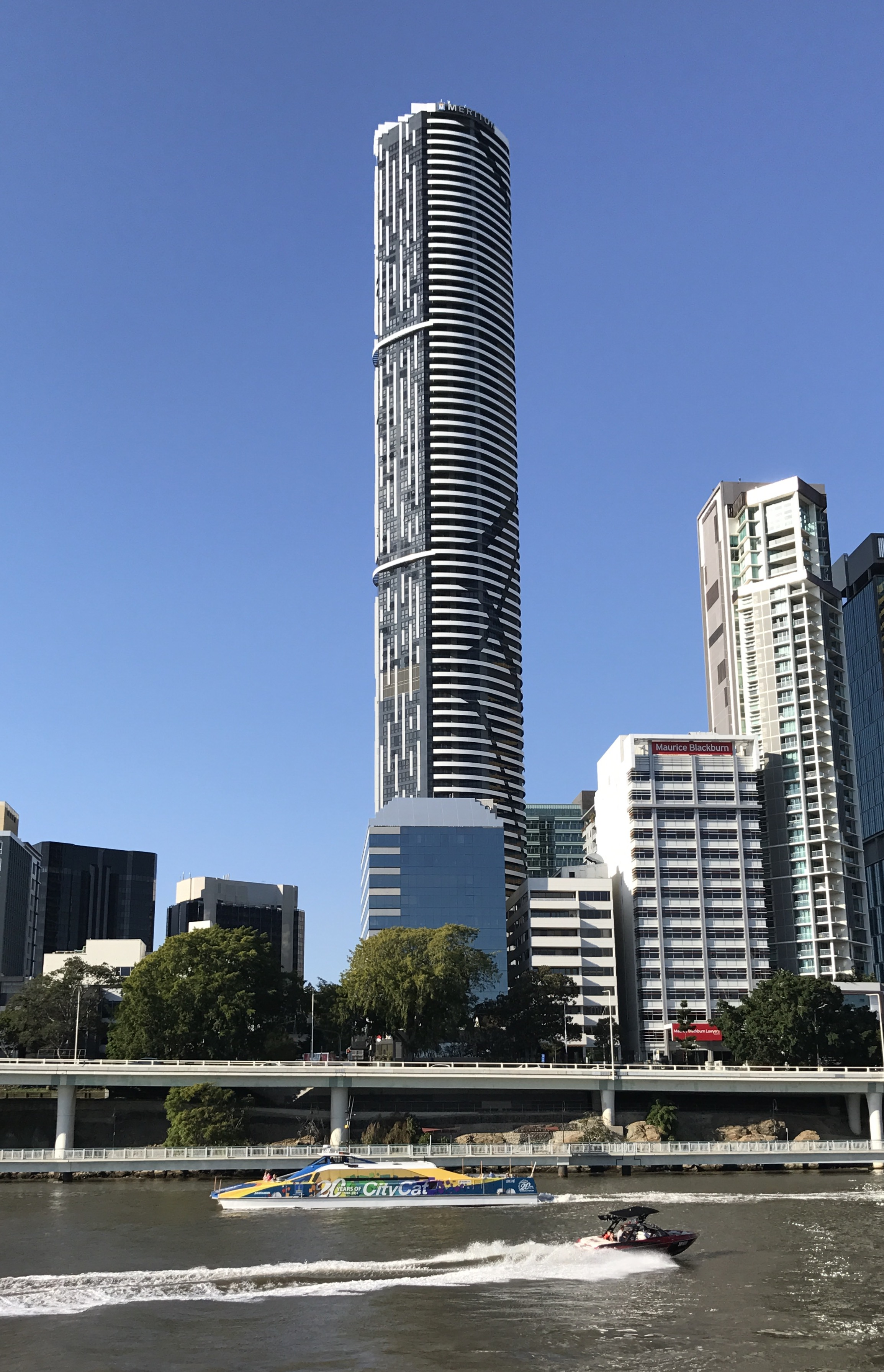 Infinity Tower, Brisbane, seen from across the river, August 2017